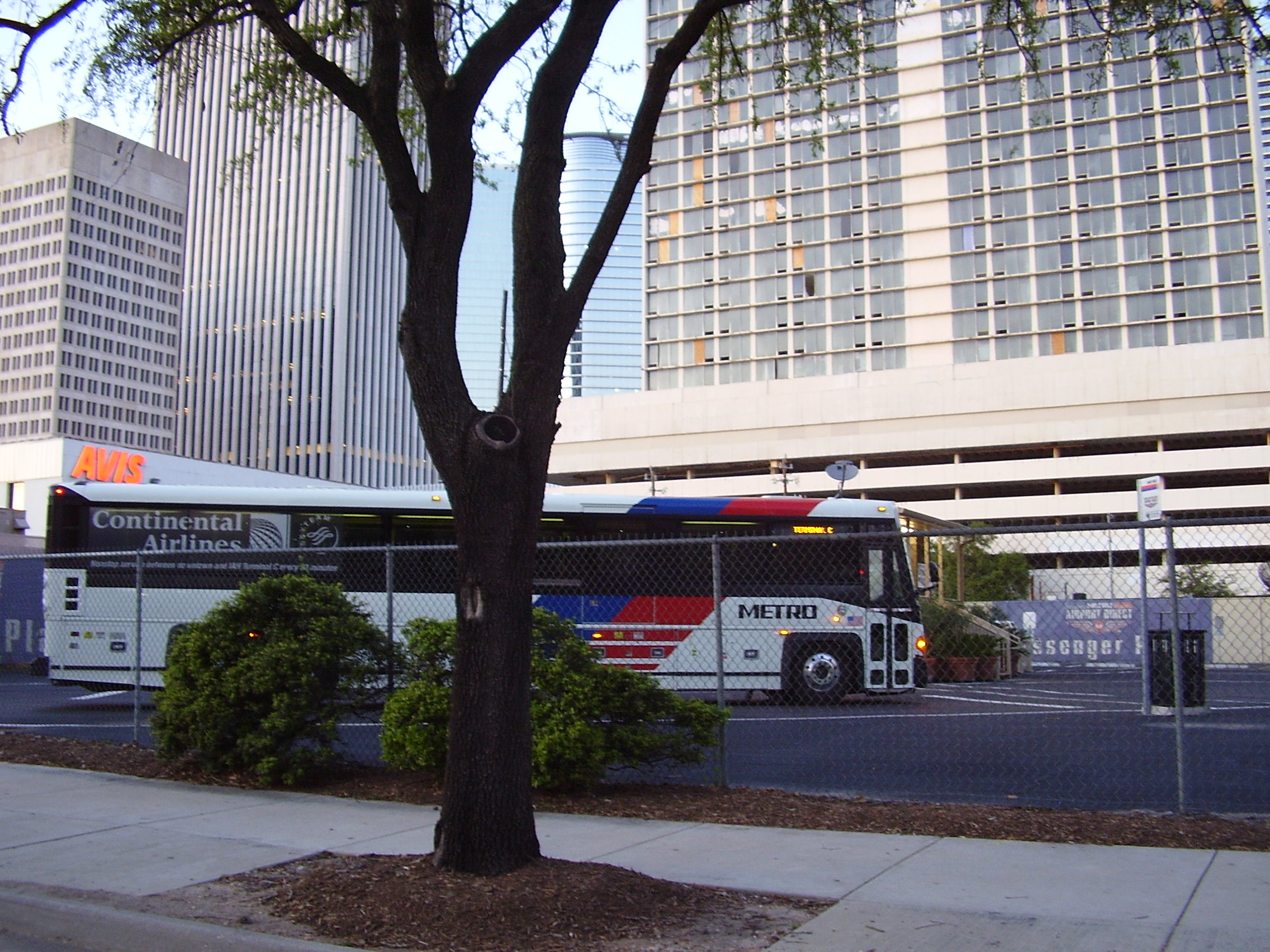 Metropolitan Transit Authority of Harris County, Texas (METRO) Airport Direct to George Bush Intercontinental Airport